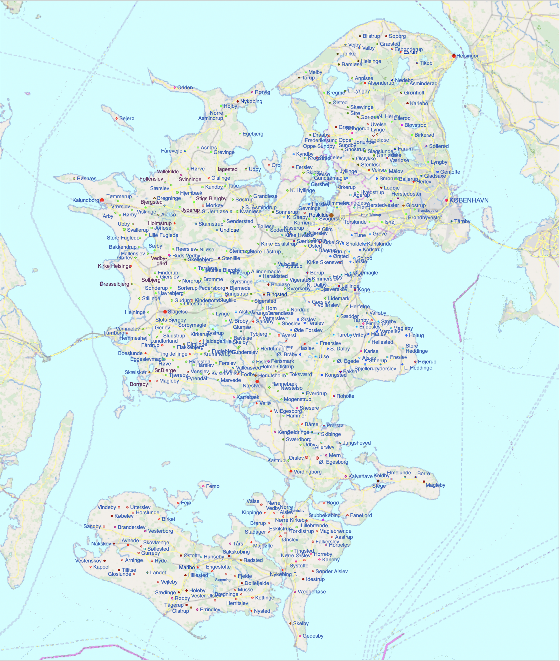 Detailed distribution of Brick Gothic in Sjælland (Zealand), island & region